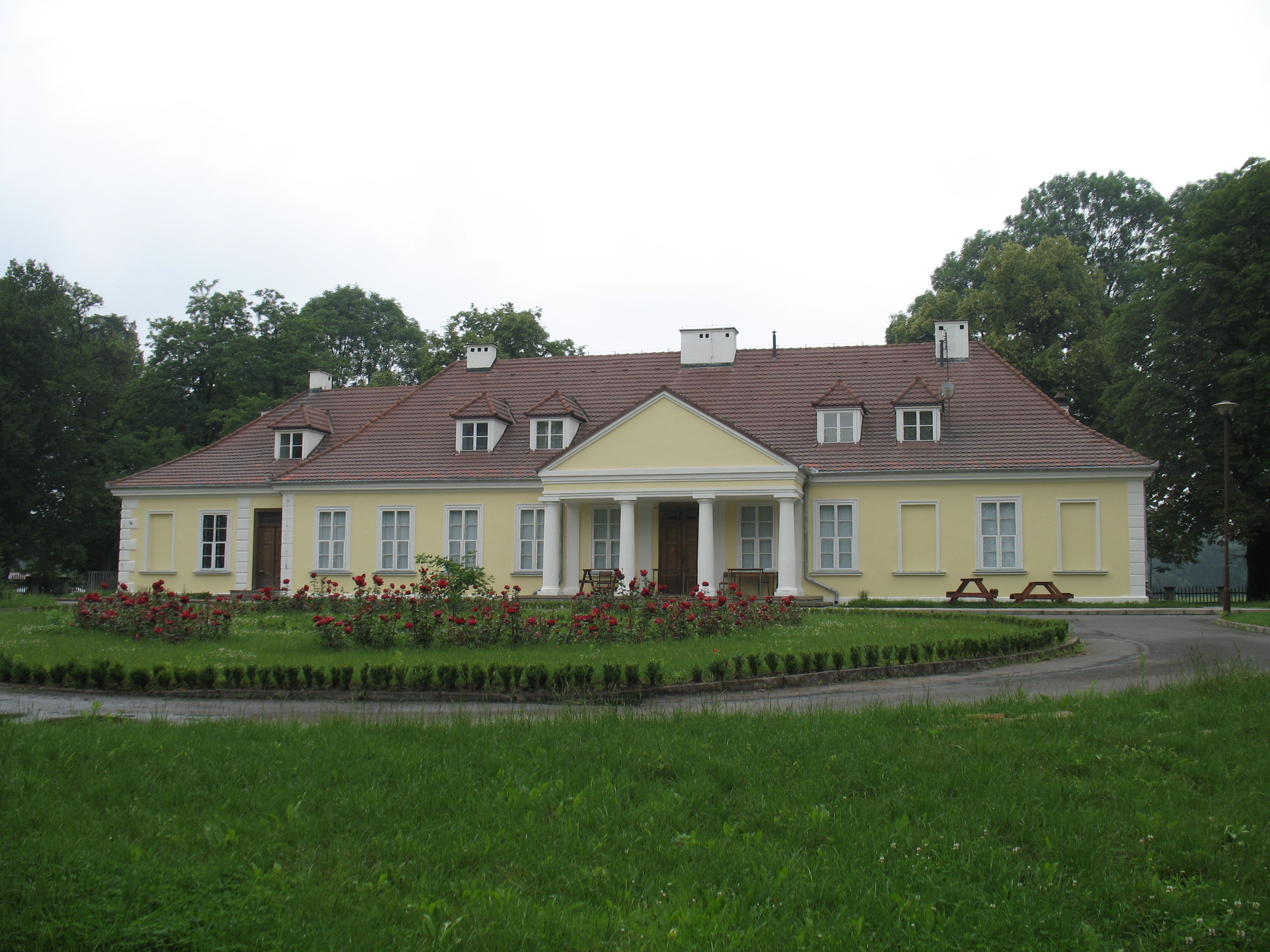 The Badeni family manor house in Branice, 19th c.